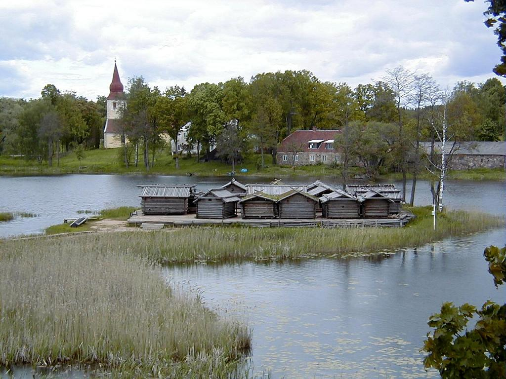 Āraiši lake dwelling site and Village